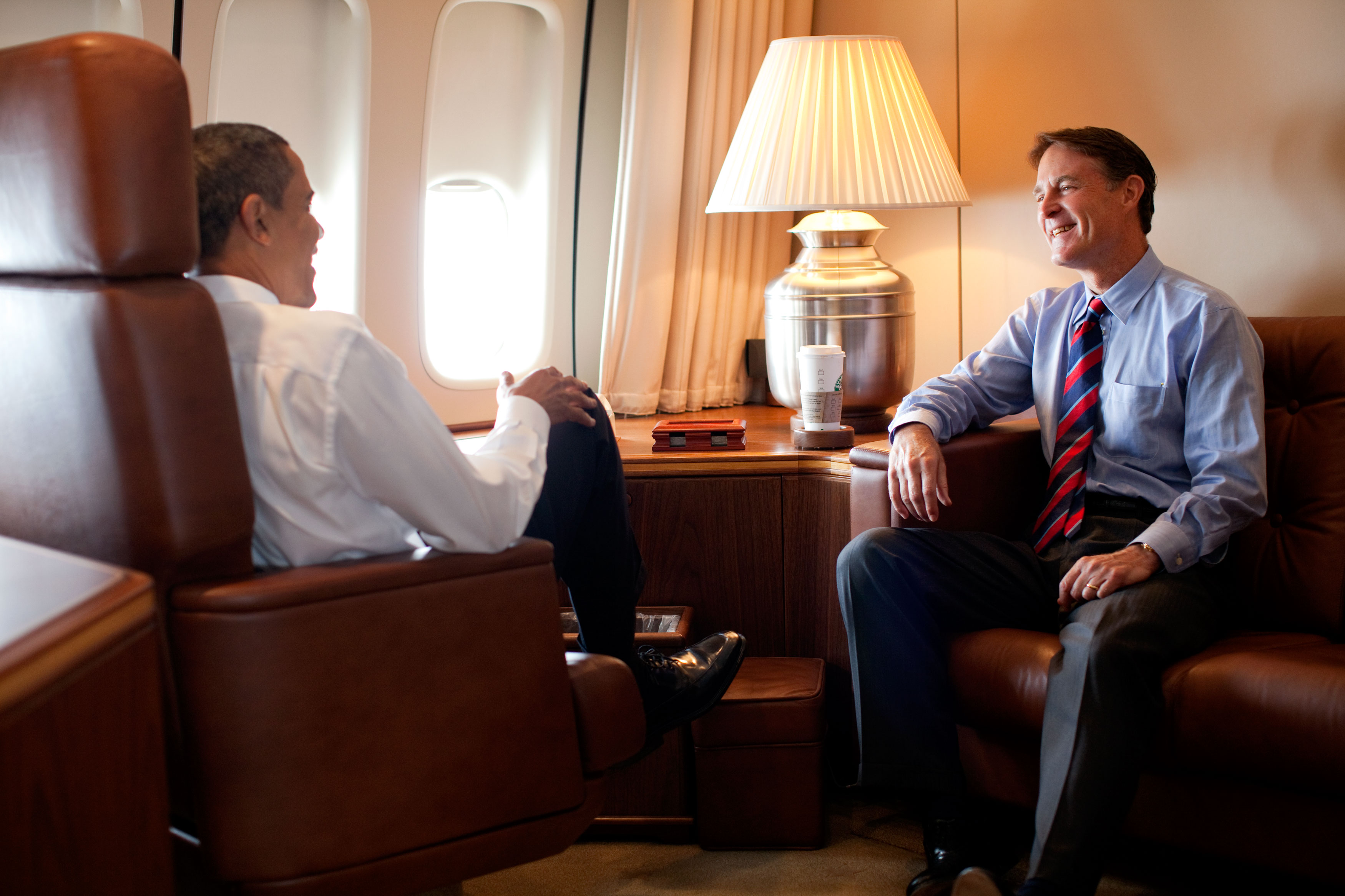 President Barack Obama talks with Sen. Evan Bayh (D-Ind.) aboard Air Force One during the flight to Wakarusa, Ind. for a speech at Monaco RV manufacturing, on Aug. 5, 2009. (Official White House Photo by Pete Souza)